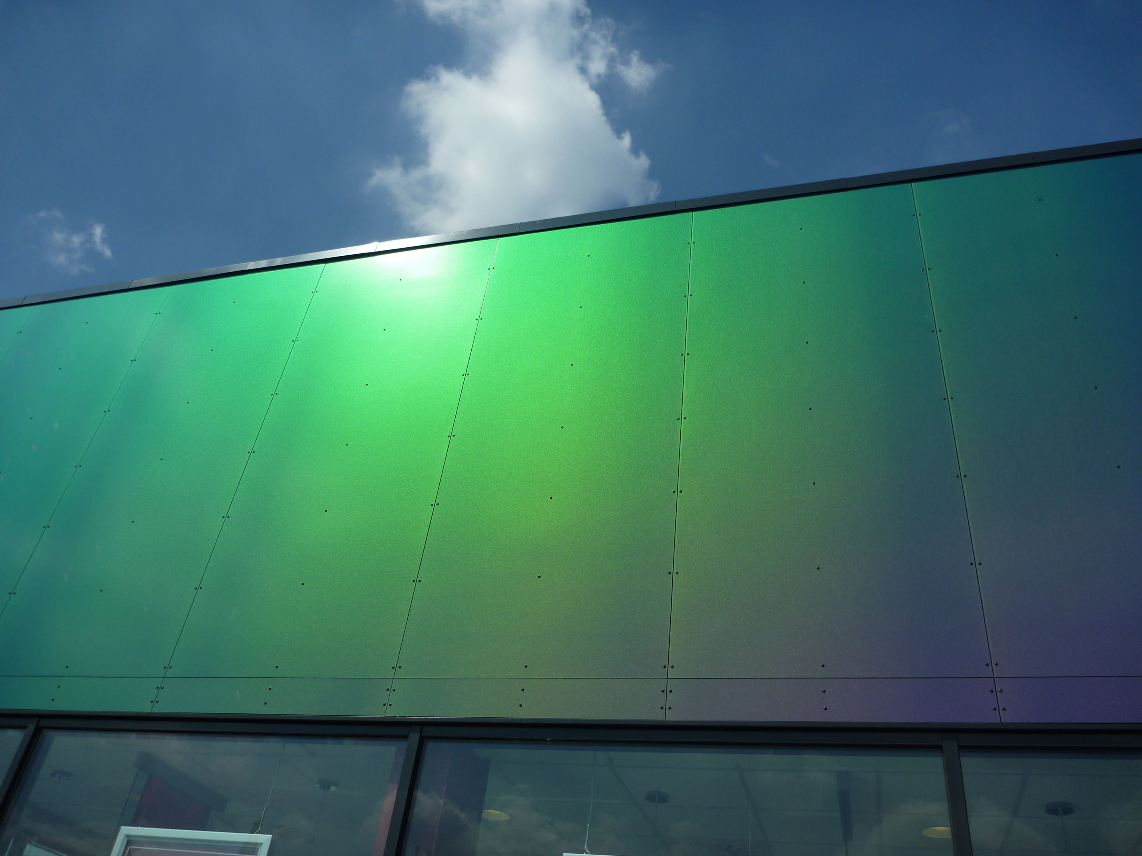 Building painted with coating that contains interference pigments (Burger King, Sliphavensvej 11, Nyborg, Denmark). It can be seen that the shade changes depending on the angle between sun, paint surface and observer.